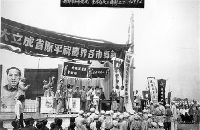 Celebrating the foundation of Pingyuan province